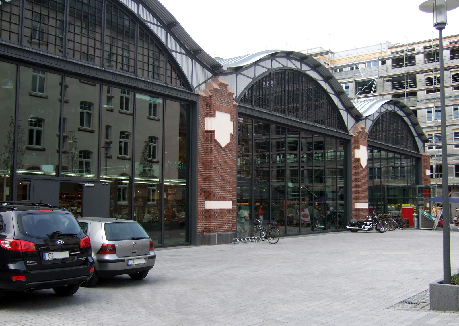 Former tram depot in Frankfurt am Main-Bornheim in May 2008